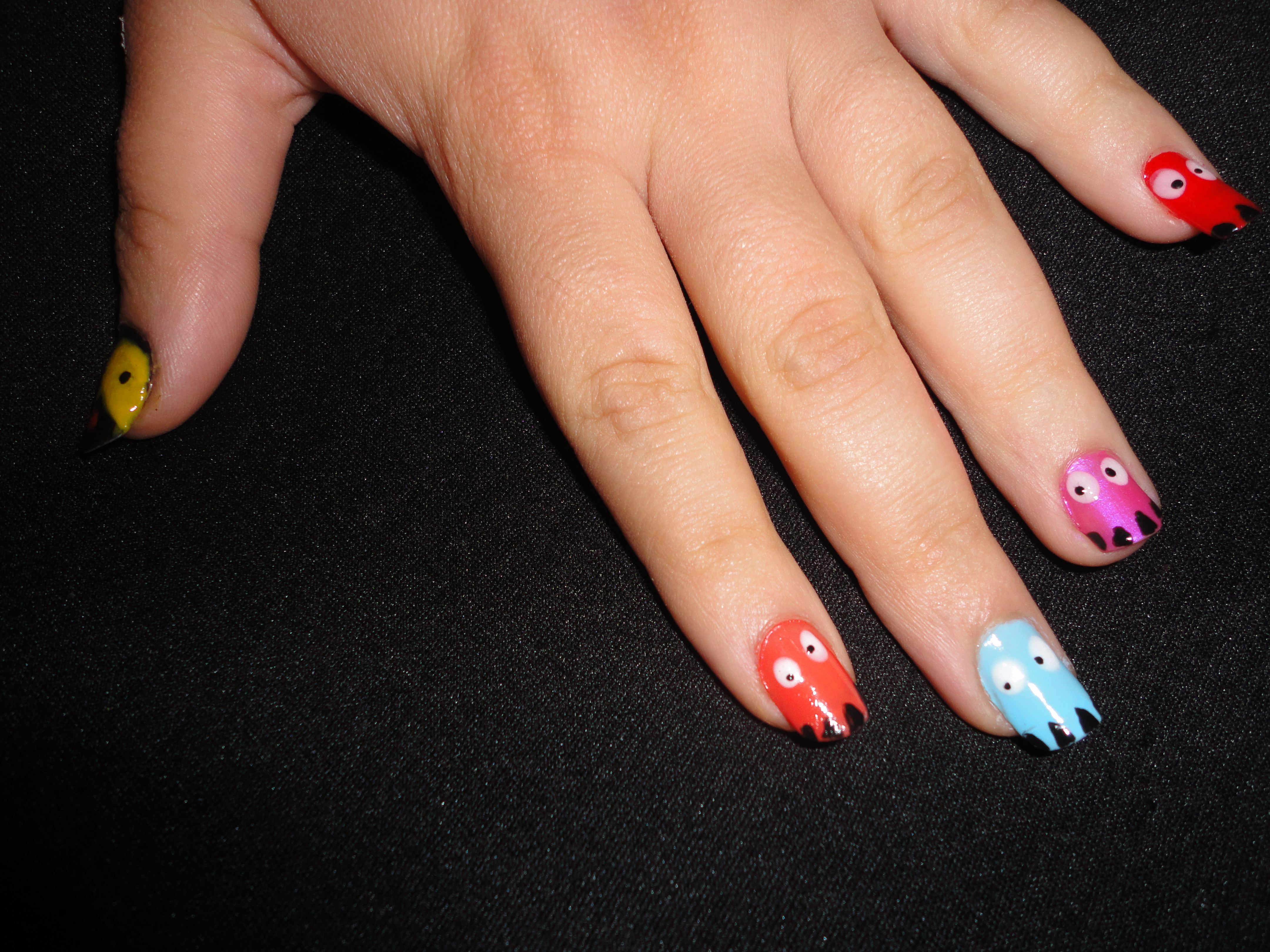 pacman